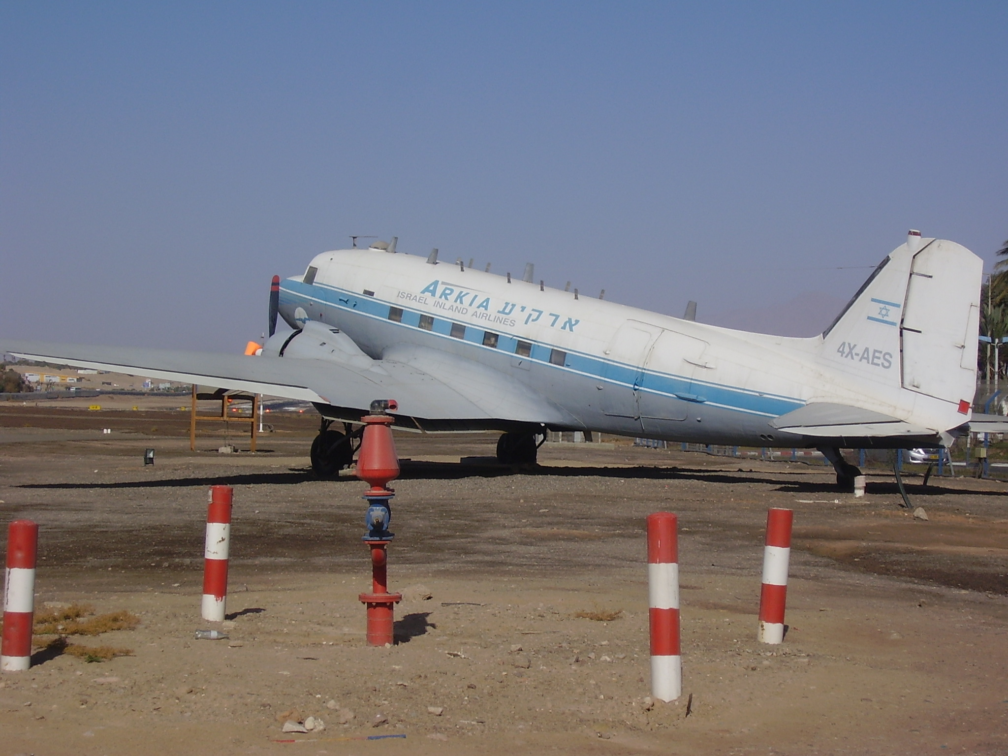 Douglas DC-3 (dakota) airliner in Eilat airport